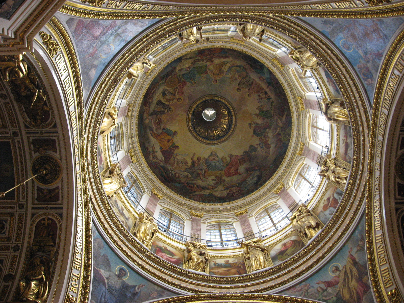 Cupola of Saint Isaac's Cathedral (ca. 1858) in St. Petersburg. The twelve gilt angels by Josef Hermann are about 6 meters high, and were among the first sculptures produced by electrotyping.